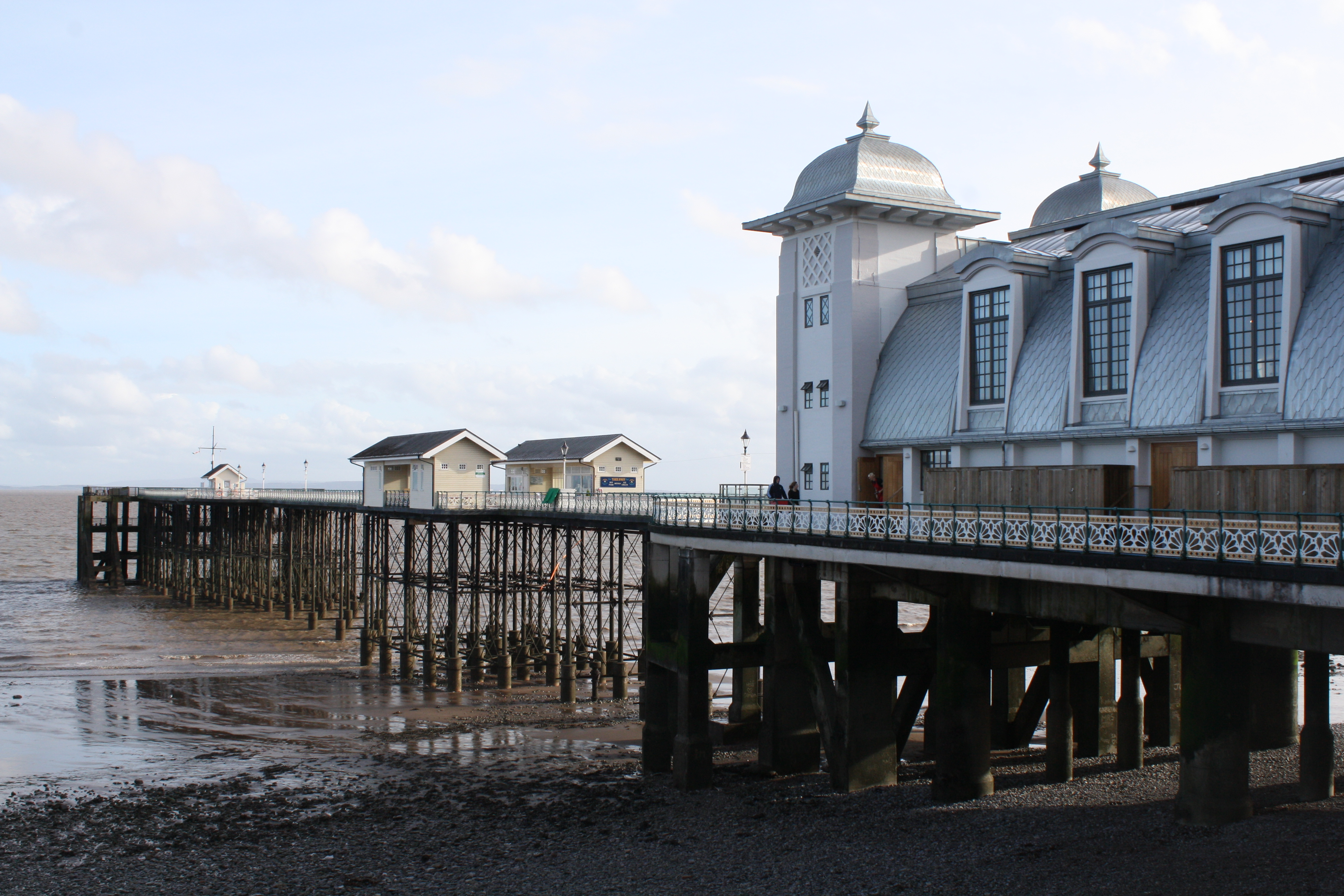 This photo shows Penarth Pier and Pavilion after its refurbishment in 2012.